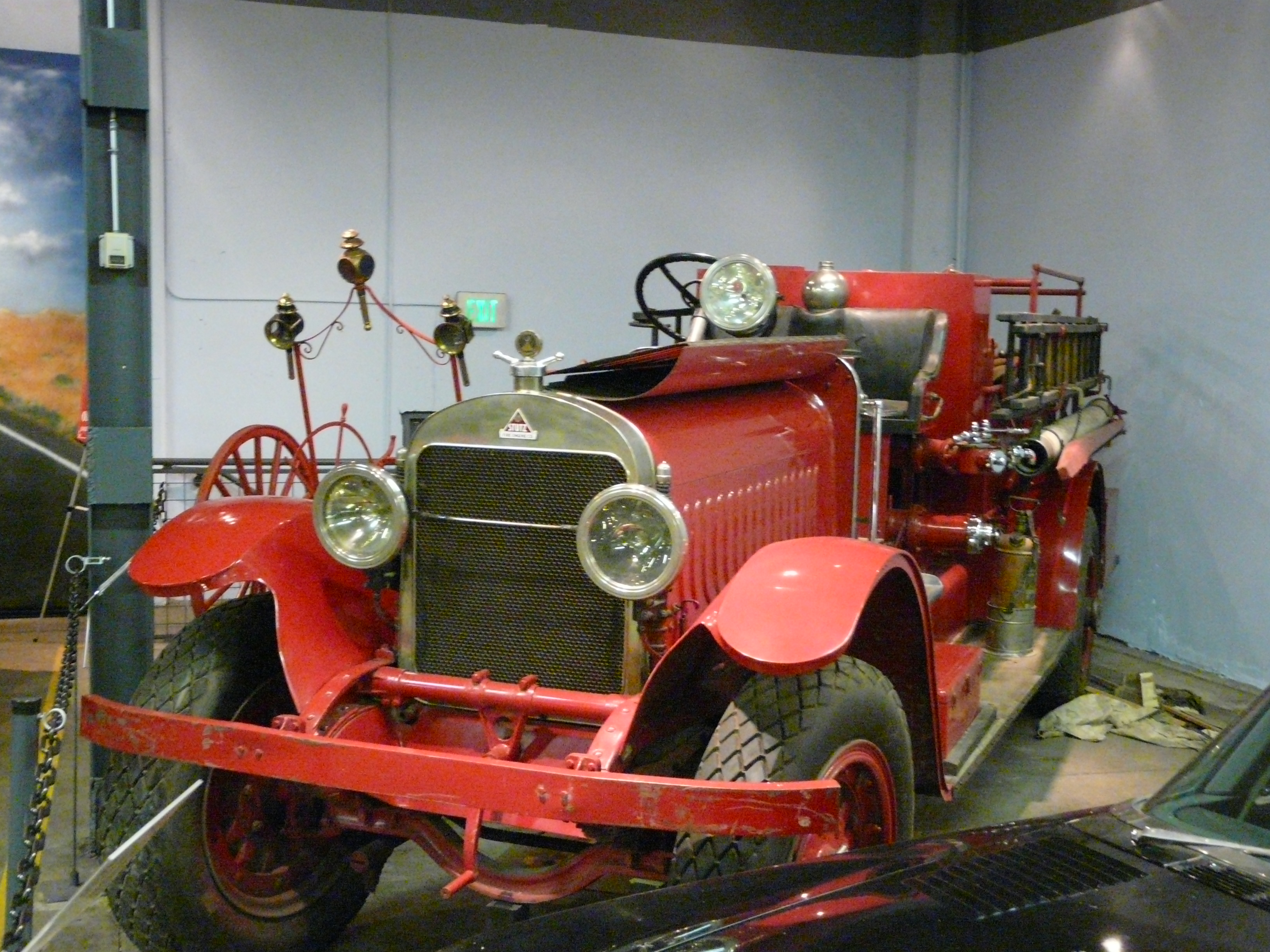 Model C Triple Combination Fire Engine, built by the Stutz Fire Engine Company in Indianapolis (1923); not to be confused with the Stutz Motor Company